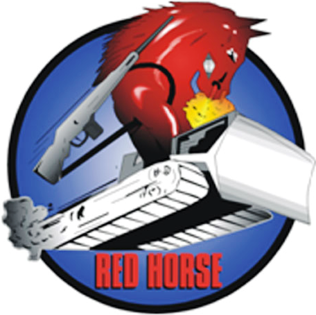 U.S. Air Force Rapid Engineer Deployable Heavy Operational Repair Squadron Engineers (RED HORSE) emblem worn on their red baseball cap